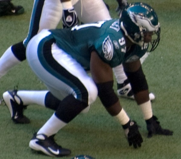 Dallas Cowboys on offensive formation during home game vs. Philadelphia Eagles